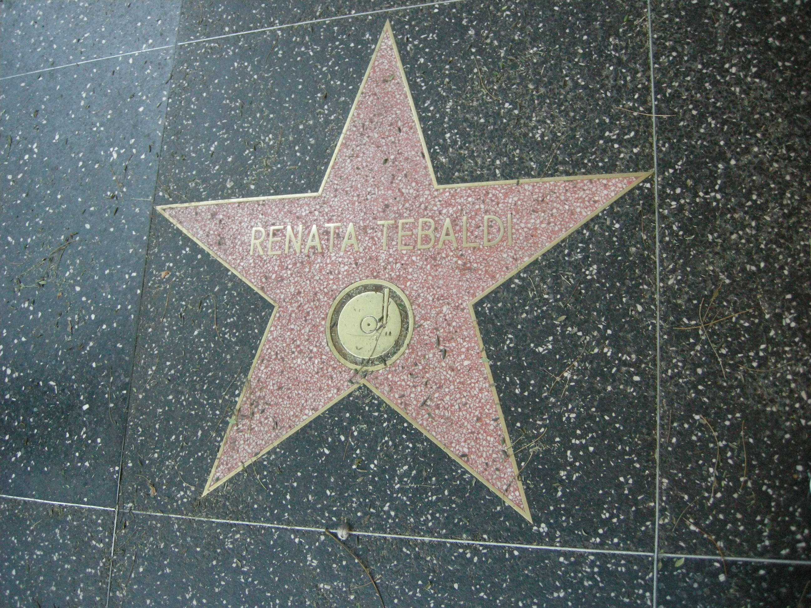 Walk of fame, renata tebaldi